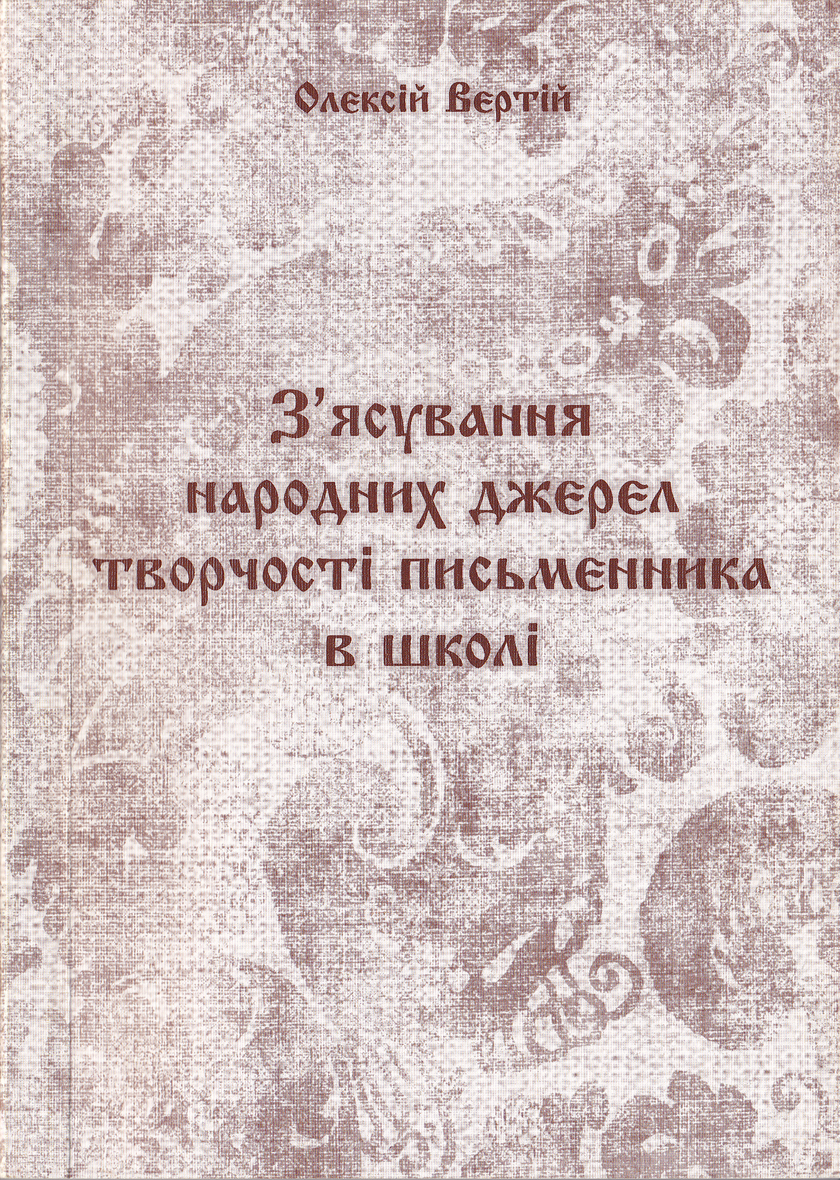 Folk Sources of the literature